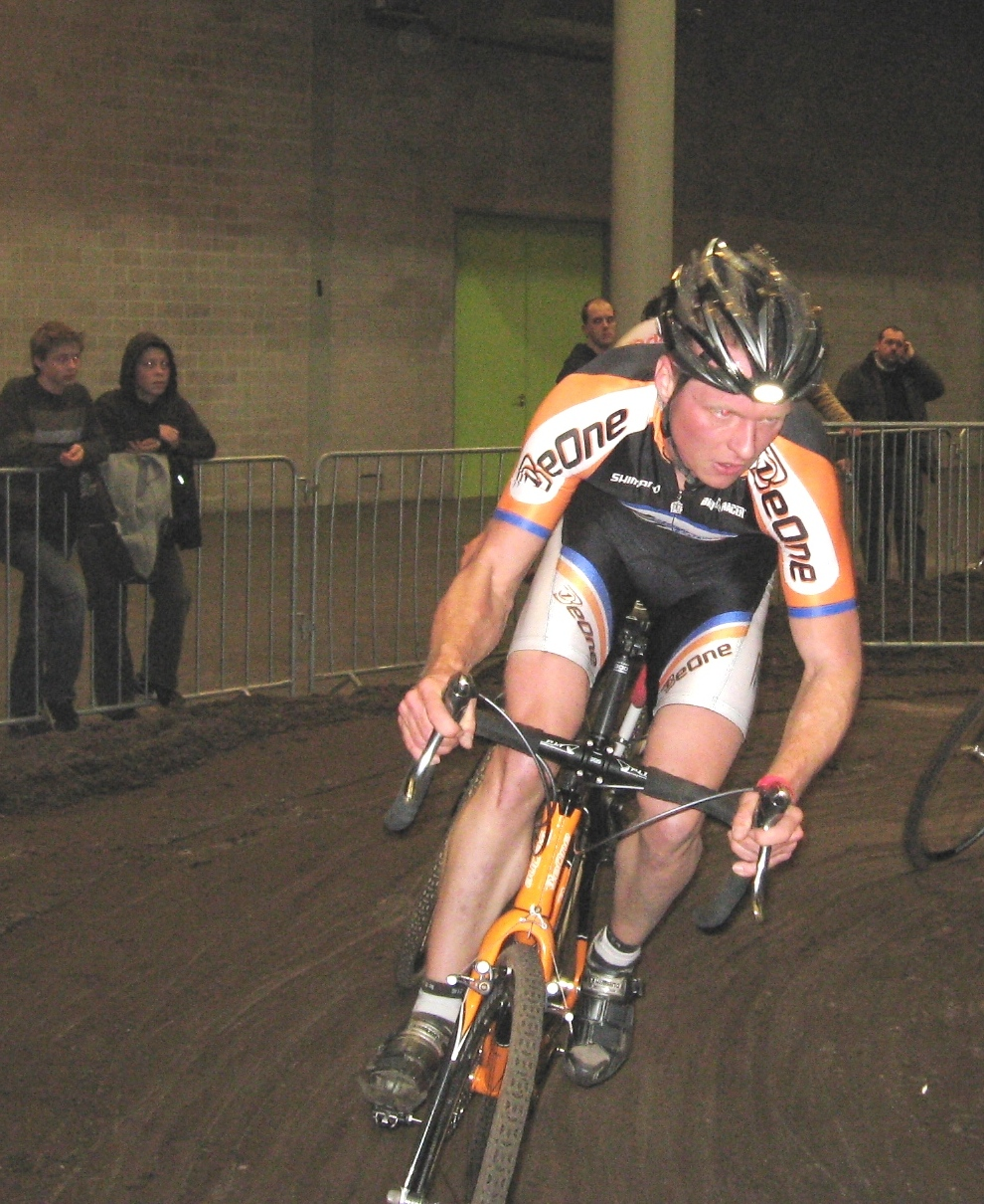 Thijs Al in action during the indoor cyclo-cross race in Hasselt, Limburg, Belgium